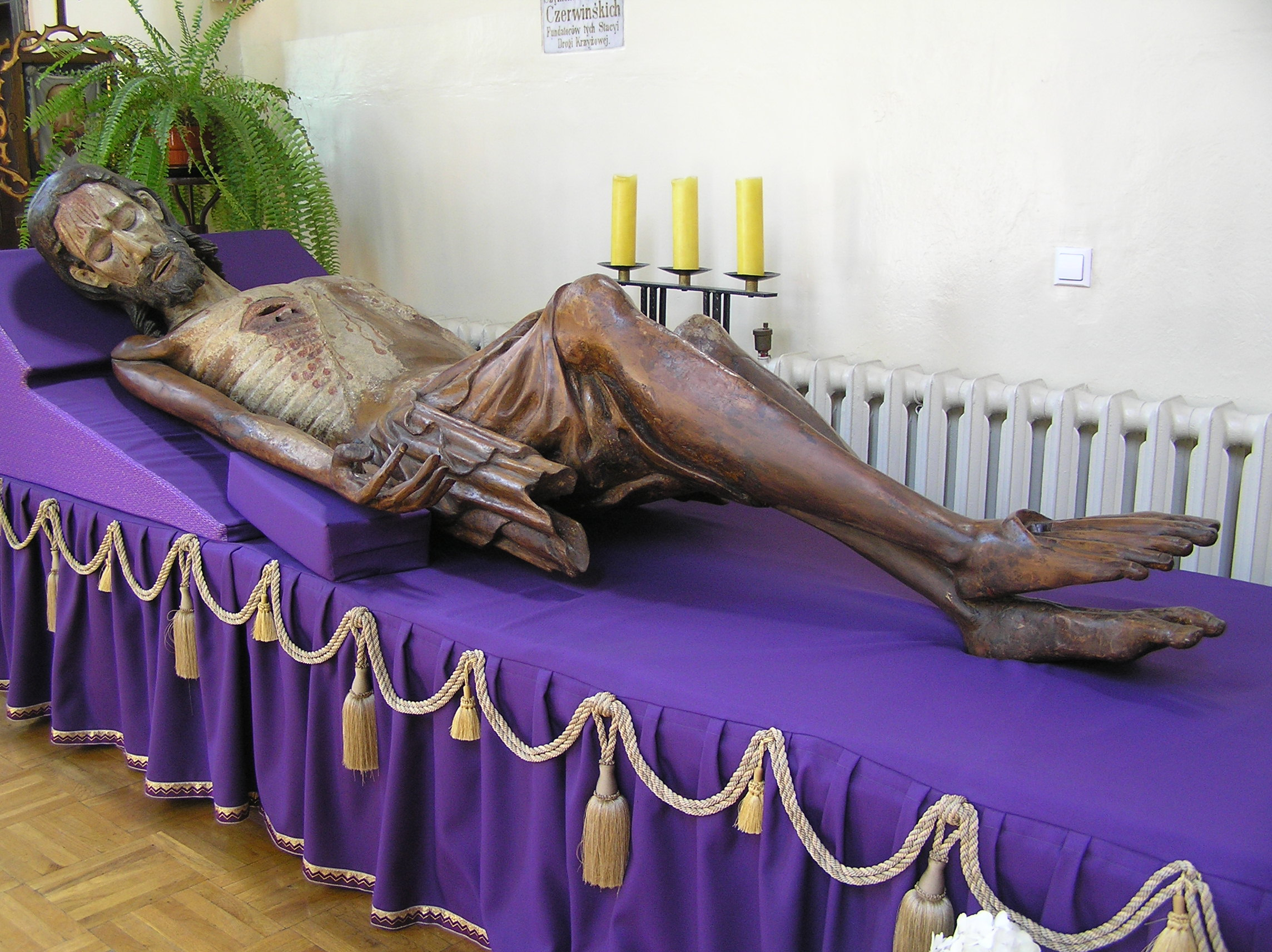 Chełmno, Church of SS. Johns, by 1429 Cistersian nun's, by 1821 Benedictine nun's, nowadays Sisters' of Charity, sculpture of the Christ in the Grave. The sculpture has mobile arms so it can be both a Crucifix and a figure of Christ in the Holy Sepulchre displayed during the Holy Week